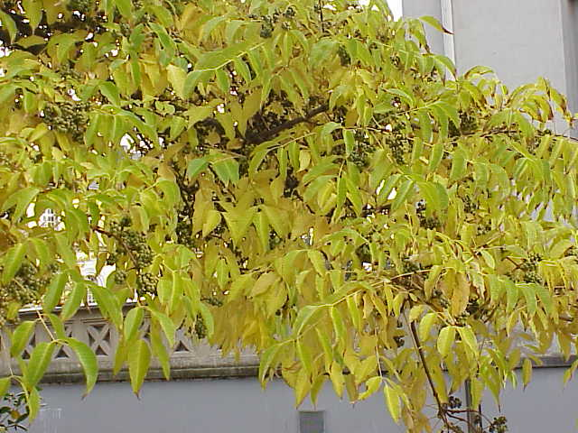 Species: Phellodendron amurense Family: Rutaceae Image No. 2